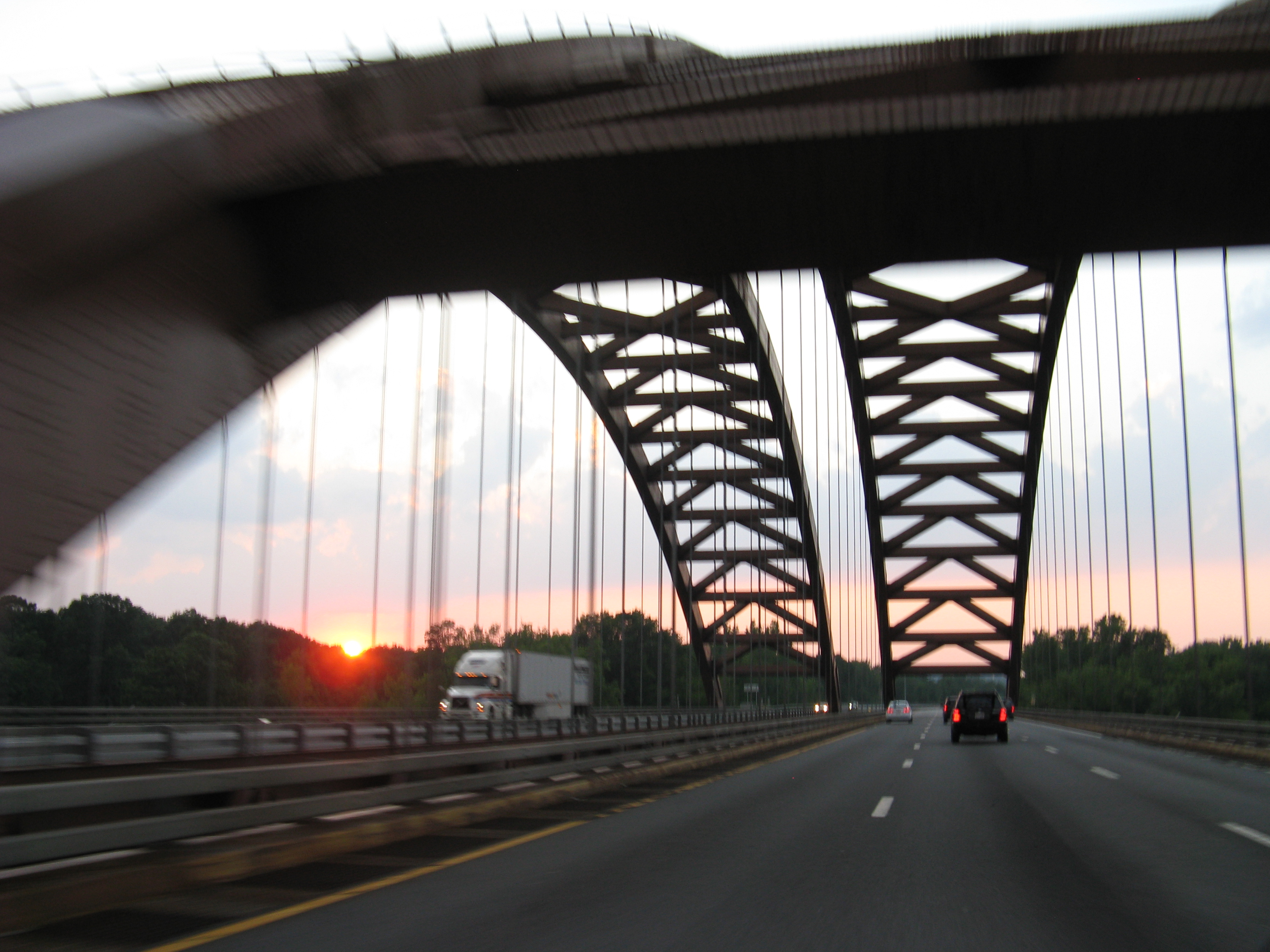 Inside the Kosciusko Bridge ~ New York I-87 Northbound ~ 21 Jul 2011